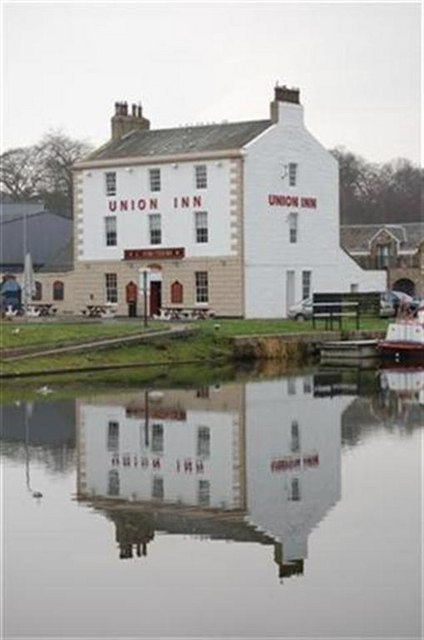 The Union Inn, at the junction of the Forth & Clyde and Union canals, Cameleon, by Falkirk, Scotland